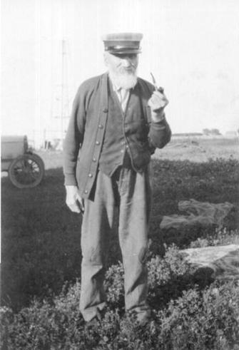 Karl Korth, probably, founder of settlement Mazepa in South Dakota, USA